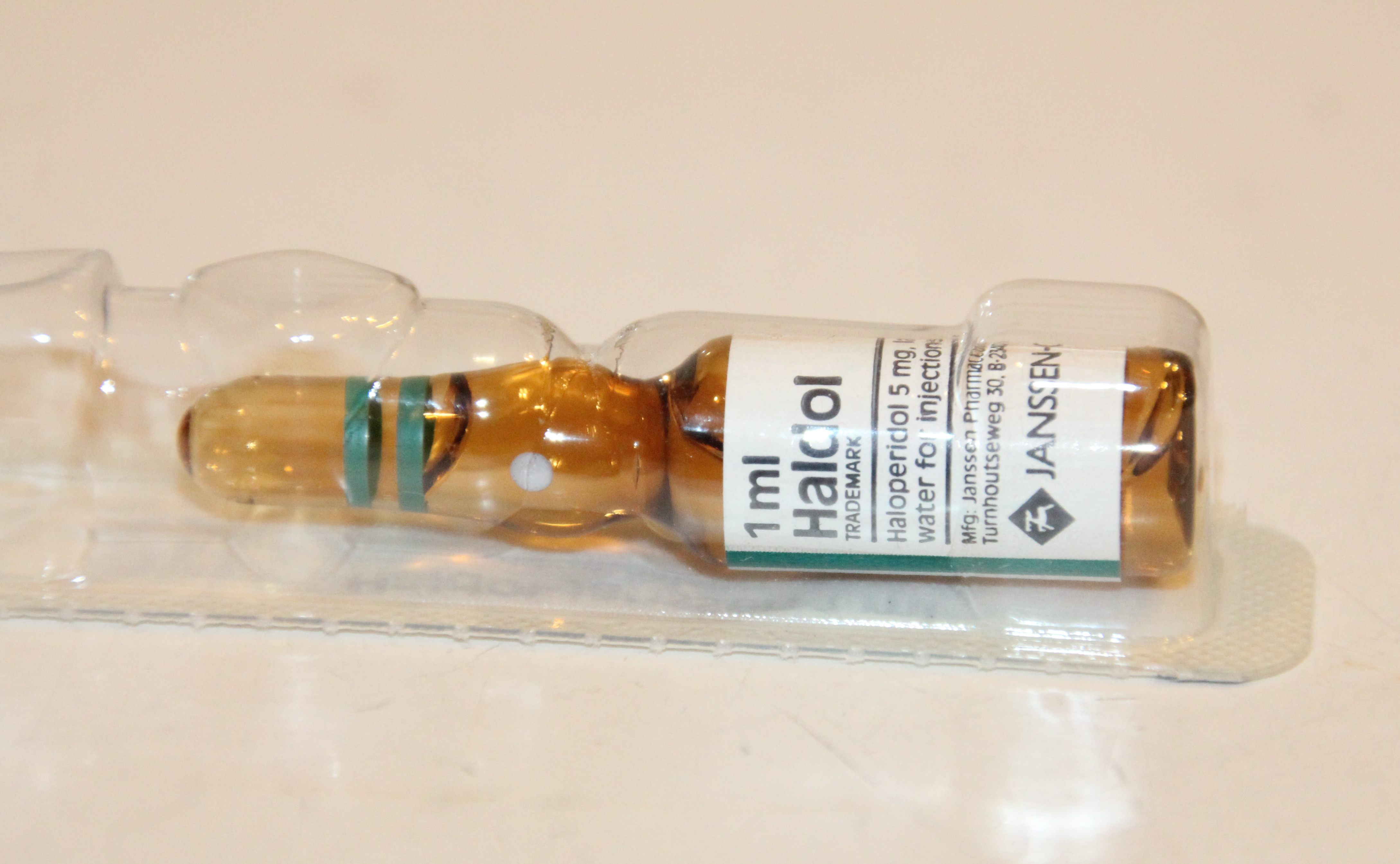 A sample of haloperidol under the trademark Haldol, 5 mg/ml